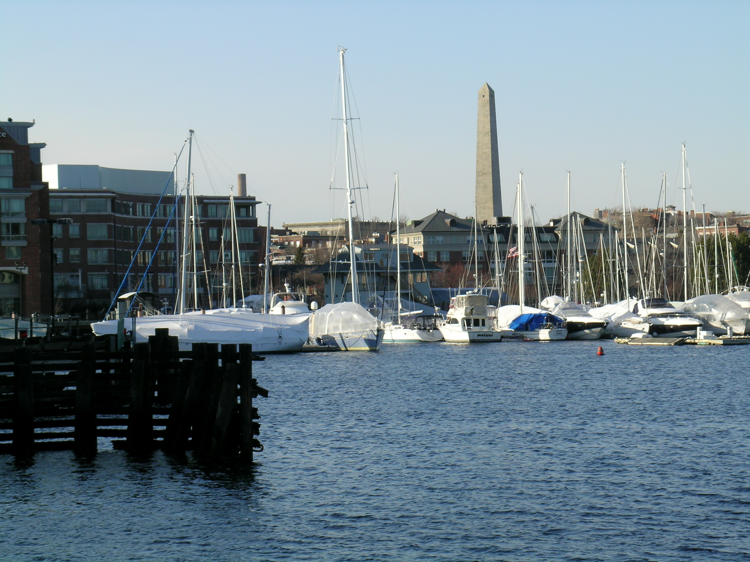 Photo taken in the North End of Boston, Massachusetts showing sailboats moored on the Charlestown side of the Charles River and the Bunker Hill Monument in the distance. March 2008 photo by John Stephen Dwyer.